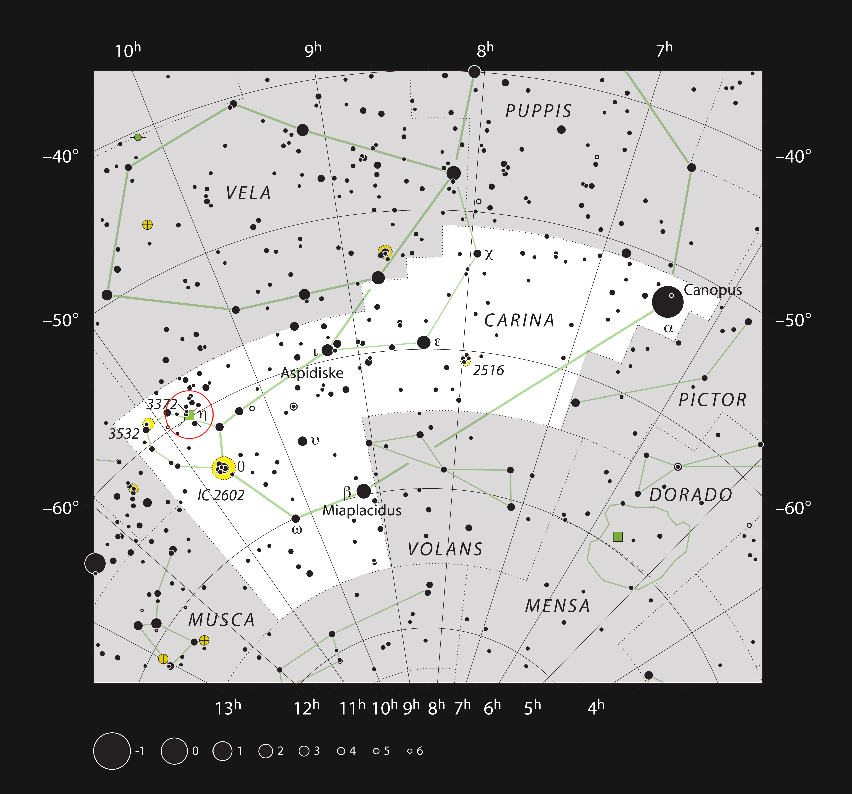 This chart shows the location of the Carina Nebula within the constellation of Carina (The Keel). This map shows most of the stars visible to the unaided eye under good conditions and the nebula itself is marked as a green square in a red circle at the left (labelled 3372 for NGC 3372). This nebula is very bright and can be seen well in small telescopes, and faintly without a telescope at all. Deitsch: Diese Aufsuchkarte zeigt die Position des Carinanebels im Sternbild Carina (der Schiffskiel). Eingezeichnet sind die meisten der unter guten Bedingungen mit bloßem Auge sichtbaren Sterne. Der Nebel selbst ist mit einem grünen Quadrat in einem roten Kreis links im Bild markiert (bezeichnet mit der Nummer 3372 für NGC 3372). Der Nebel ist außerordentlich hell und kann bereits mit kleinen Teleskopen gut beobachtet werden. Sogar für das bloße Auge ist er schwach erkennbar.